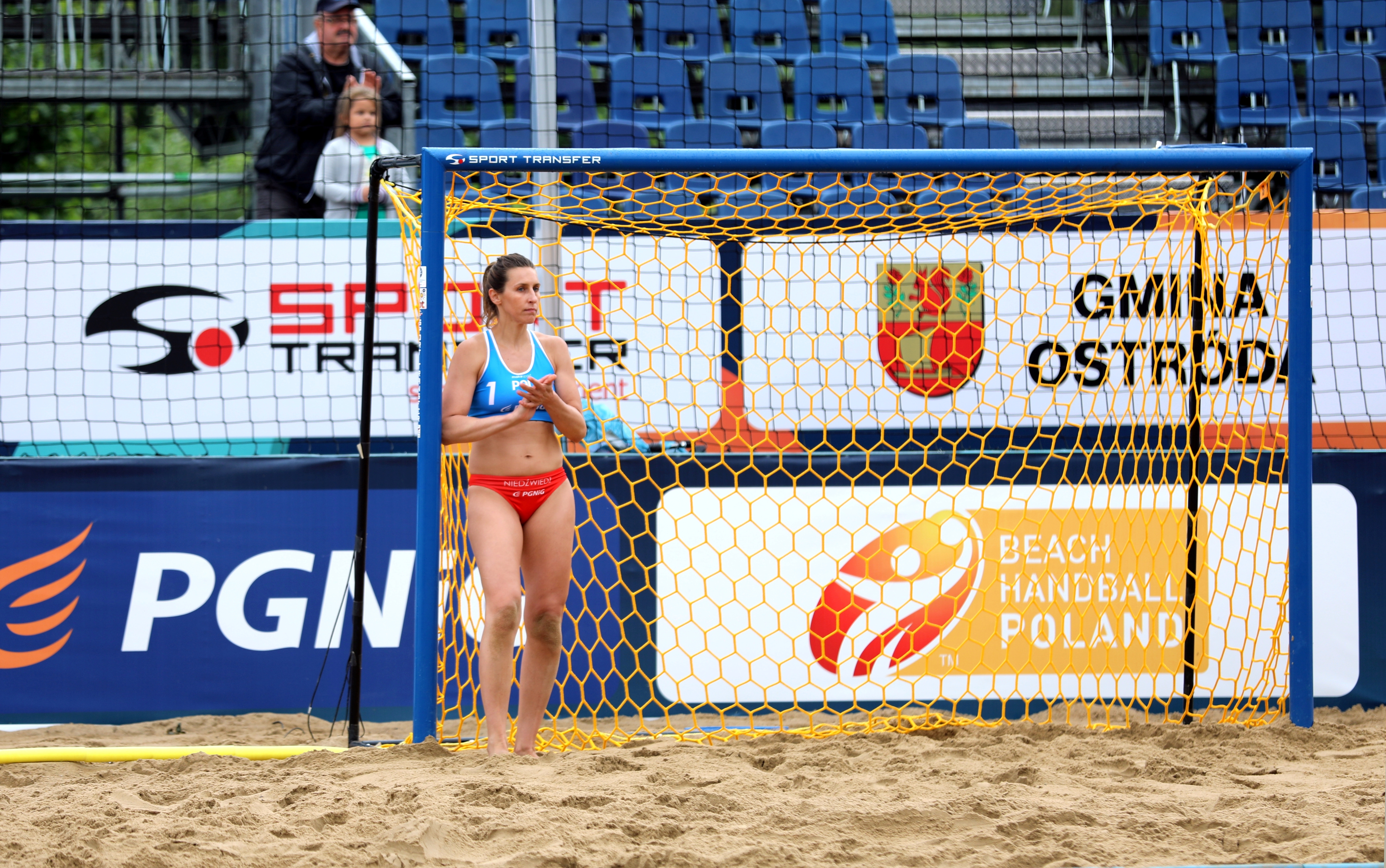 Beach handball Euro; Day 5: 6 July 2019 – Placement Match/Cross Match for rank 9–12 Women – Germany-Poland 2:1 (22:23, 19:16, 7:6)